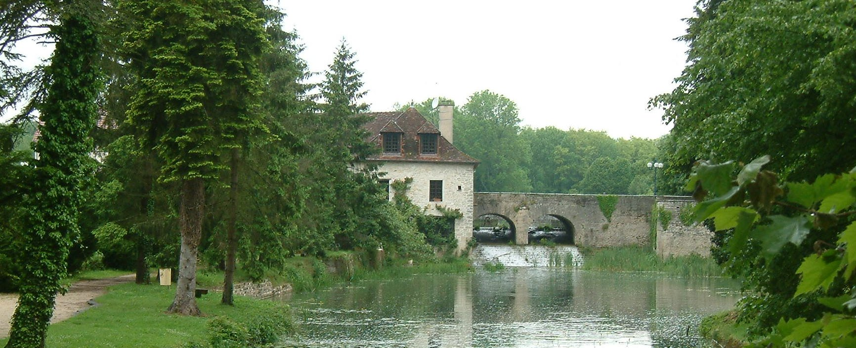 Fontaine-Française, Burgundy, FRANCE.